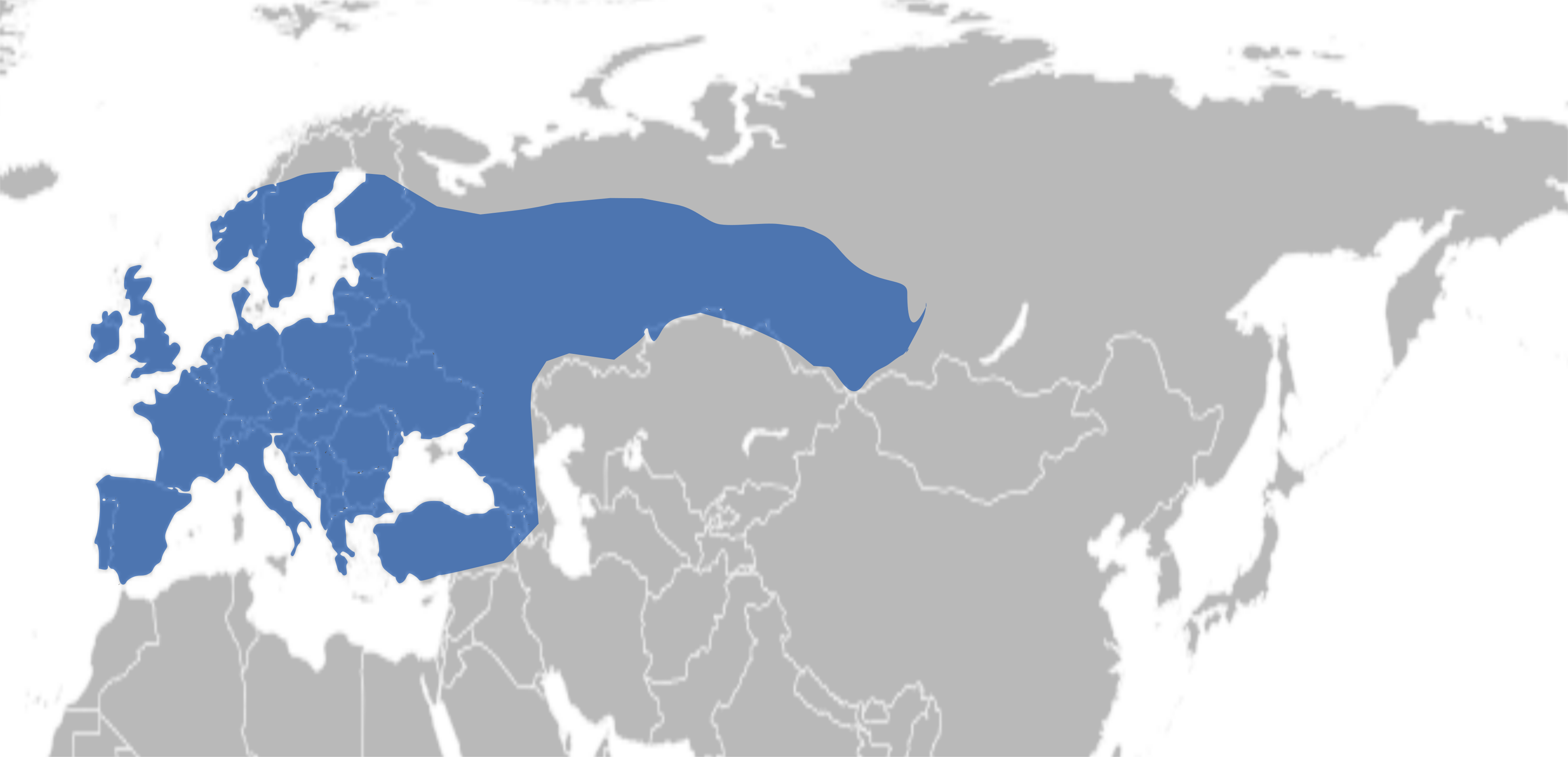 Distribution map for the dor beetle (Anoplotrupes stercorosus). Original blank SVG map (flattened) by author Frank Bennett. Made with Inkscape.